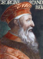 Portrait of Skanderbeg in the Uffizi, Florence. Source: [1]